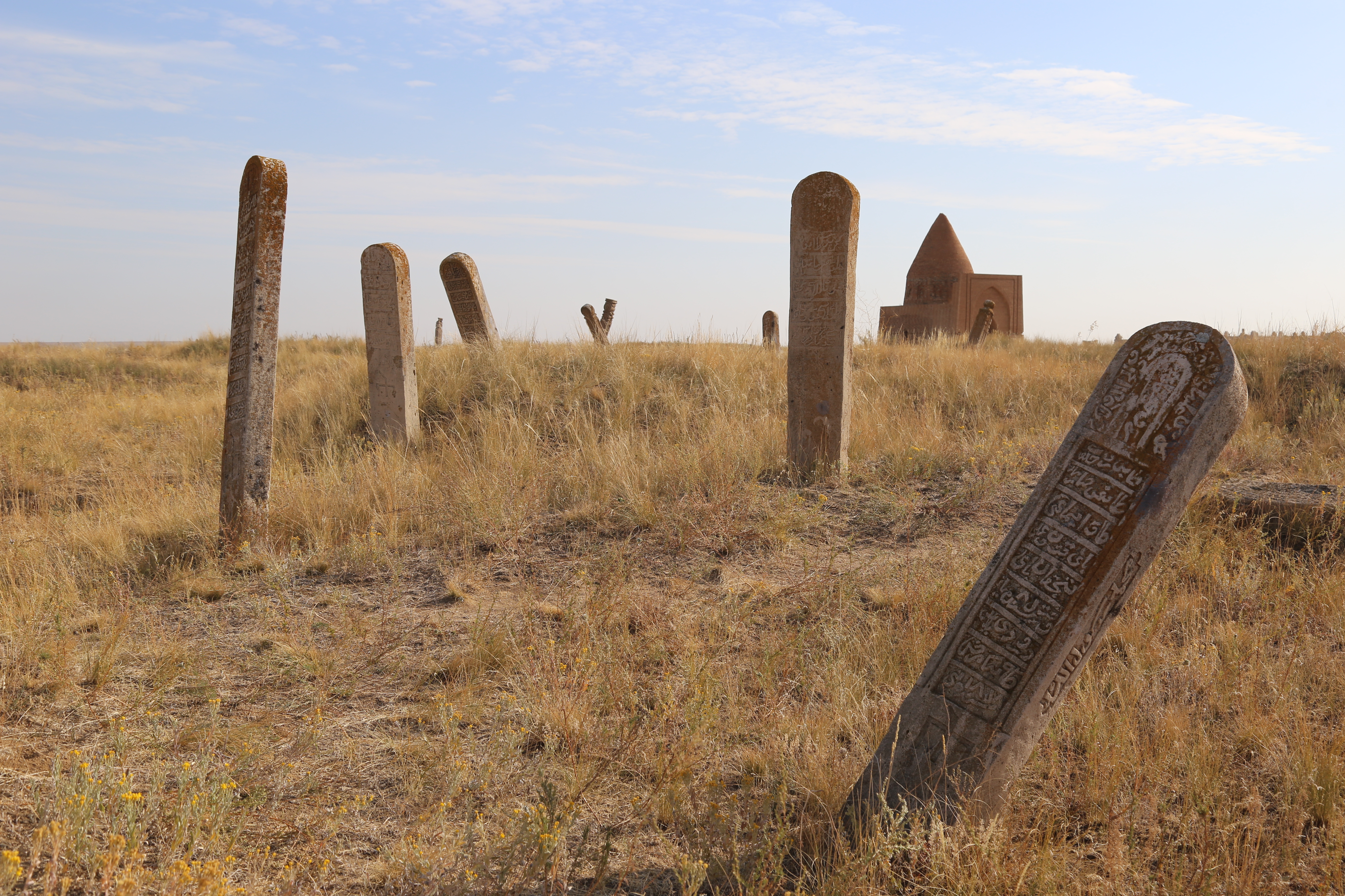 Abat-Baitak